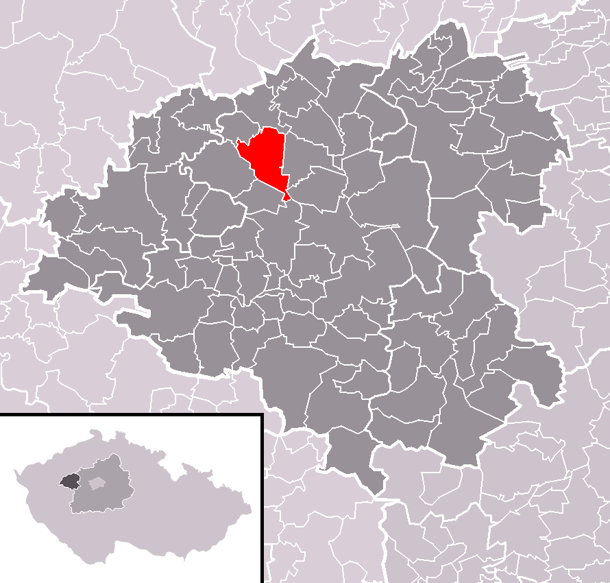 Location of Kněževes municipality within Rakovník District and (identical) administrative area of Rakovník as a Municipality with Extended Competence.